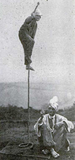 The magician Karachi (real name Arthur Claude Darby) performing the Indian rope trick with his son in 1935. The photograph is believed to be a hoax by magicians. The 'rope' the boy is balancing on is believed to be a rigid iron shaft.